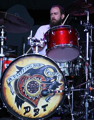 Brad Morgan, drummer for Drive-By Truckers by Rivers Langley